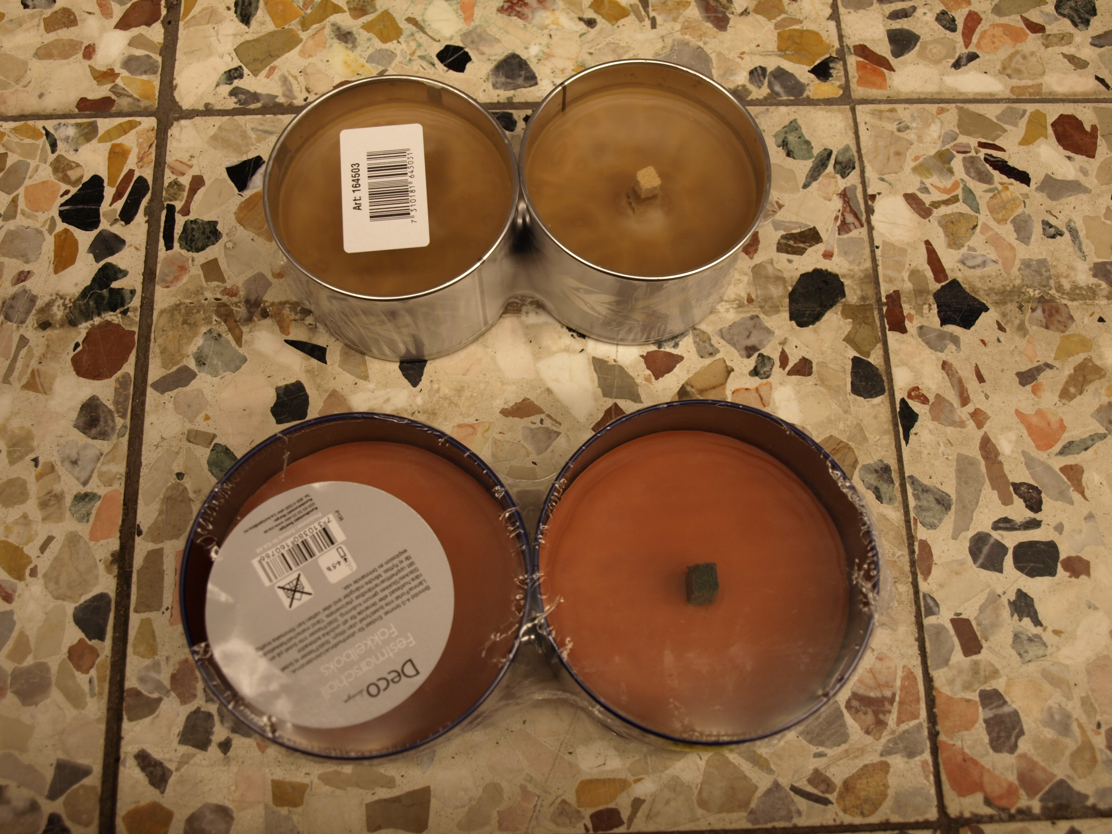 At the top: A pitch torch for graves. At the bottom: A pitch torch for parties. Photo taken in a Swedish grocery store